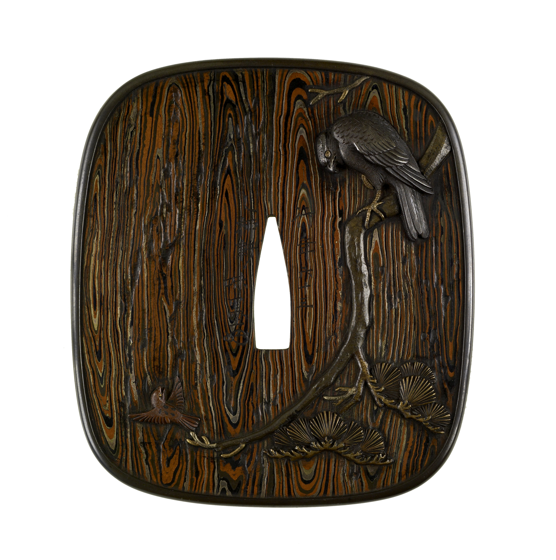 The body of this tsuba is designed with a wood grain texutre made of multiple metals. At the upper right, a hawk is perched on a branch looking down. Below the hawk at the lower left is a sparrow. On the reverse, there is a branch at the upper left and a sparrow in flight at the bottom.